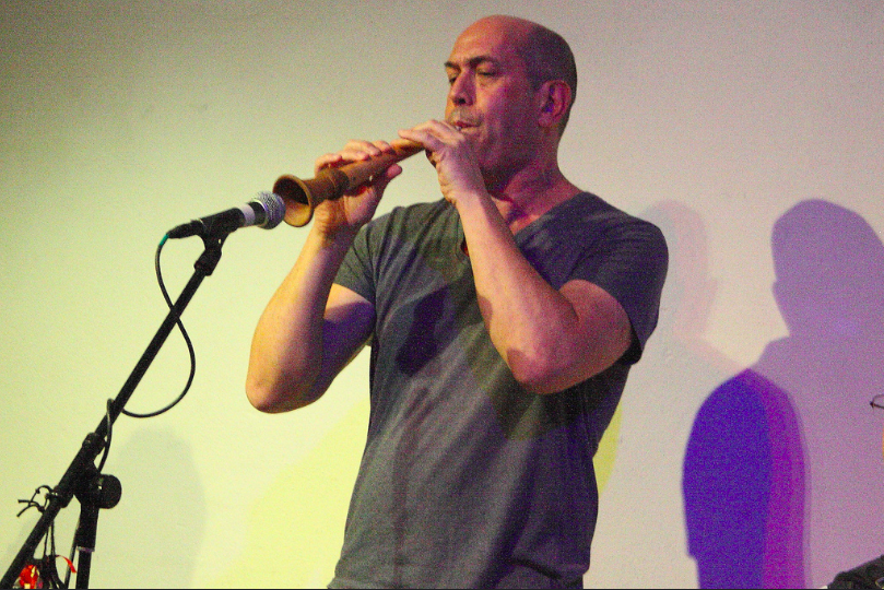 Here is pictures of Mark Glanville playing the Ciaramella